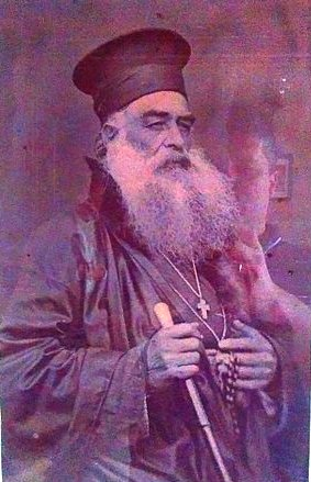 Aportrait of Bulgarian cleric and scholar Hristo Popvasilev, 23 april 1871